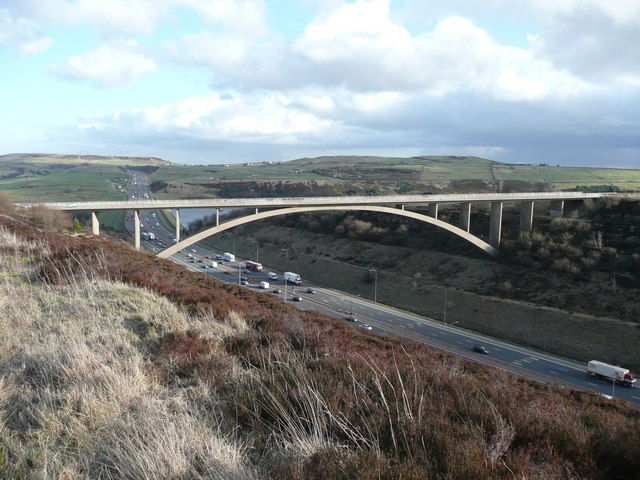 Scammonden Bridge This carries the B6114 Saddleworth Road over the M62. When it was constructed c.1970 its 125m span was the largest fixed arch in the UK and one of the largest in Europe. The roadway is 36m above the motorway.